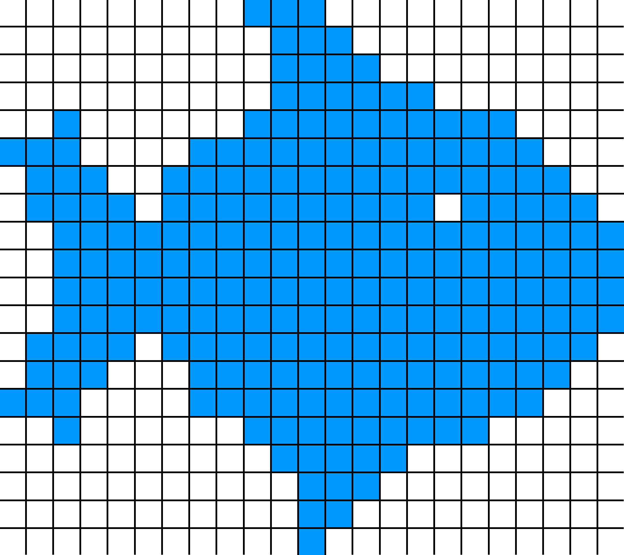 An example for SDTV-resolution using a raster graphic of a fish. Made of 20x23 squares. Originalbild/Original photo: Image:Raster graphic fish 40X46squares hdtv-example.jpg created on Benutzer Diskussion:Andreas -horn- Hornig/Bildwerkstatt